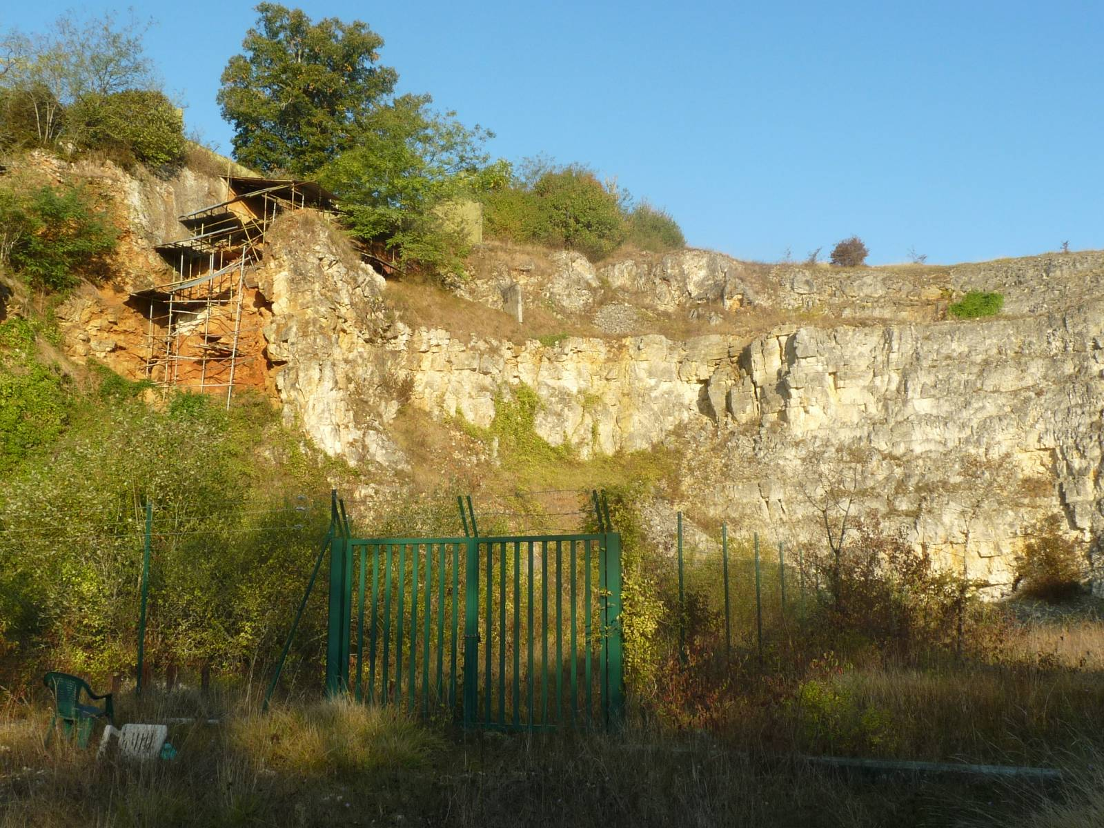 Archeological cliff of Artenac, Saint-Mary, Charente, SW France